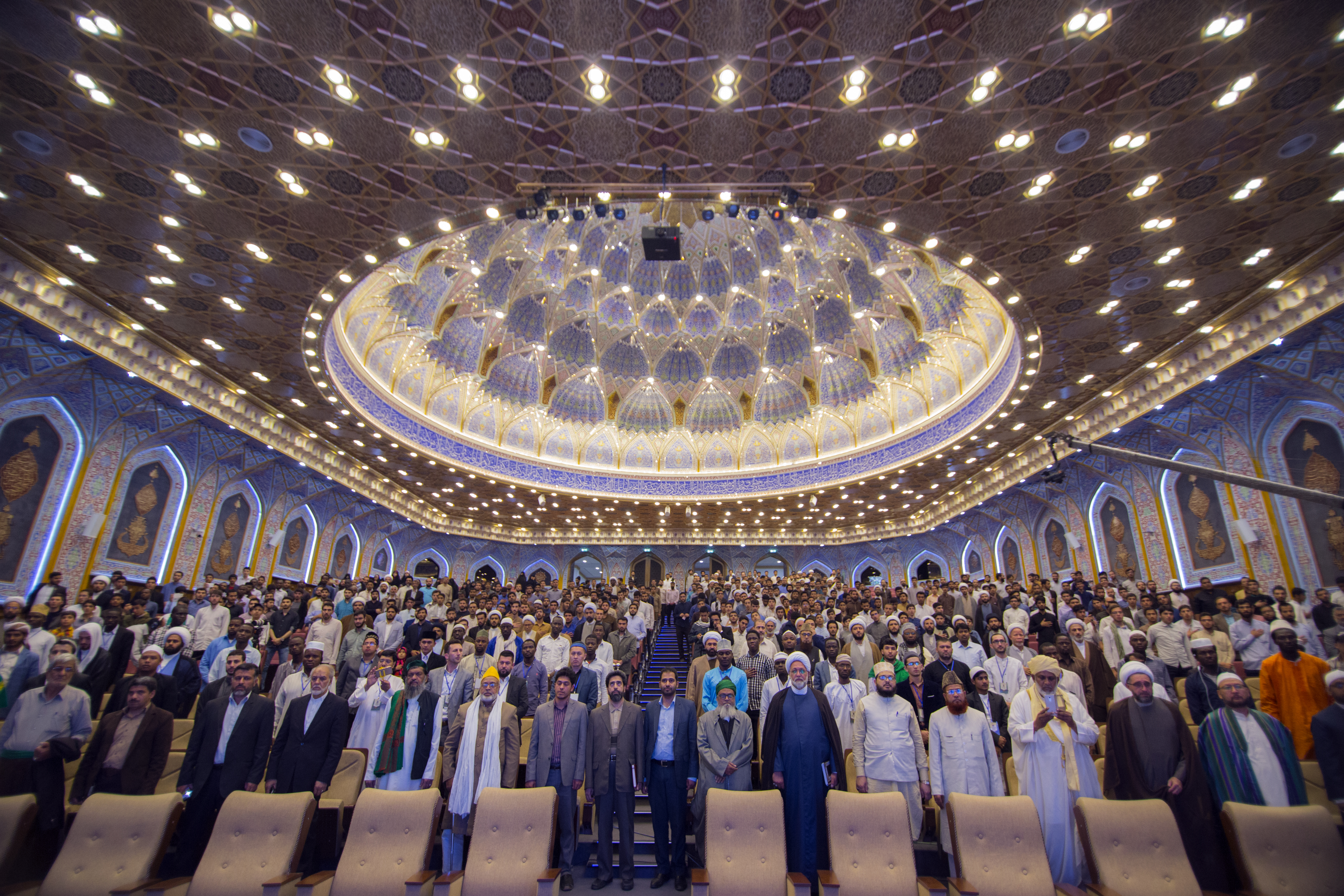 Al-Mustafa International University (MIU) (Arabic: جامعة المصطفىٰ العالمية; Persian: جامعة المصطفی العالمیه) is an international academic, Islamic and university-style seminary institute in Qom, Iran established in 1979. It has international branches and affiliate schools. Photos : International Quran Competition for Students of Islamic Seminary Schools Photographer: Mostafa Meraji